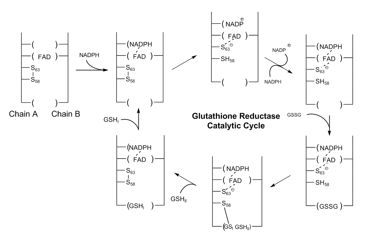 GSR catalyic cycle